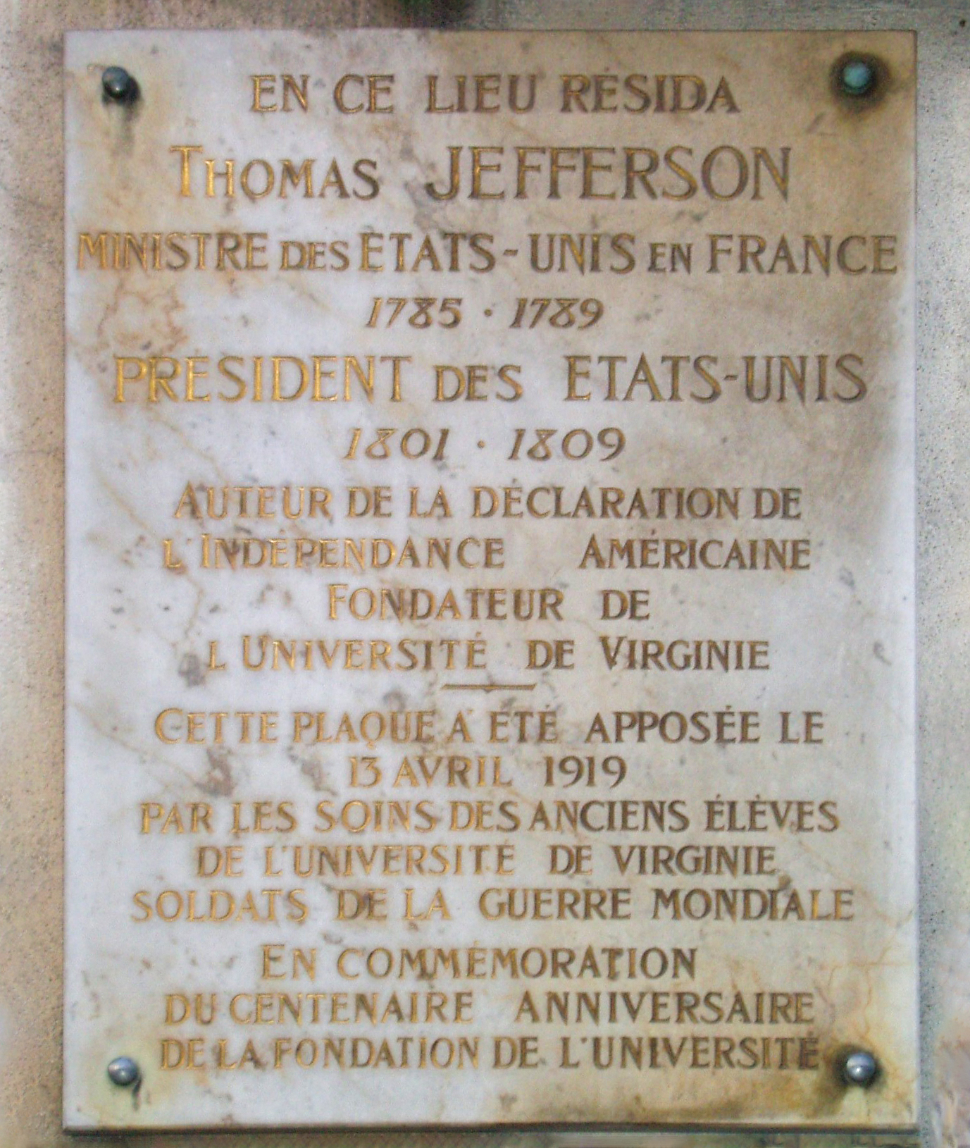 Memorial plaque marking where Thomas Jefferson lived in Paris. Photographed on the Champs Elysees, Paris, France, in 2007. Self-made photograph. "In this place resided Thomas Jefferson Minister of the United States to France 1785–1789 President of the United States 1801–1809 Author of the American Declaration of Independence Founder of the University of Virginia This plaque was affixed on the 13th of April 1919, by the care of former students of the University of Virginia, soldiers of the World War, in commemoration of the 100th anniversary of the founding of the university"